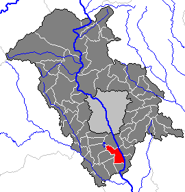 This map shows the area of the Gemeinde (municipality) Kalsdorf bei Graz in the Bezirk (district) Graz-Umgebung, Styria, Austria.